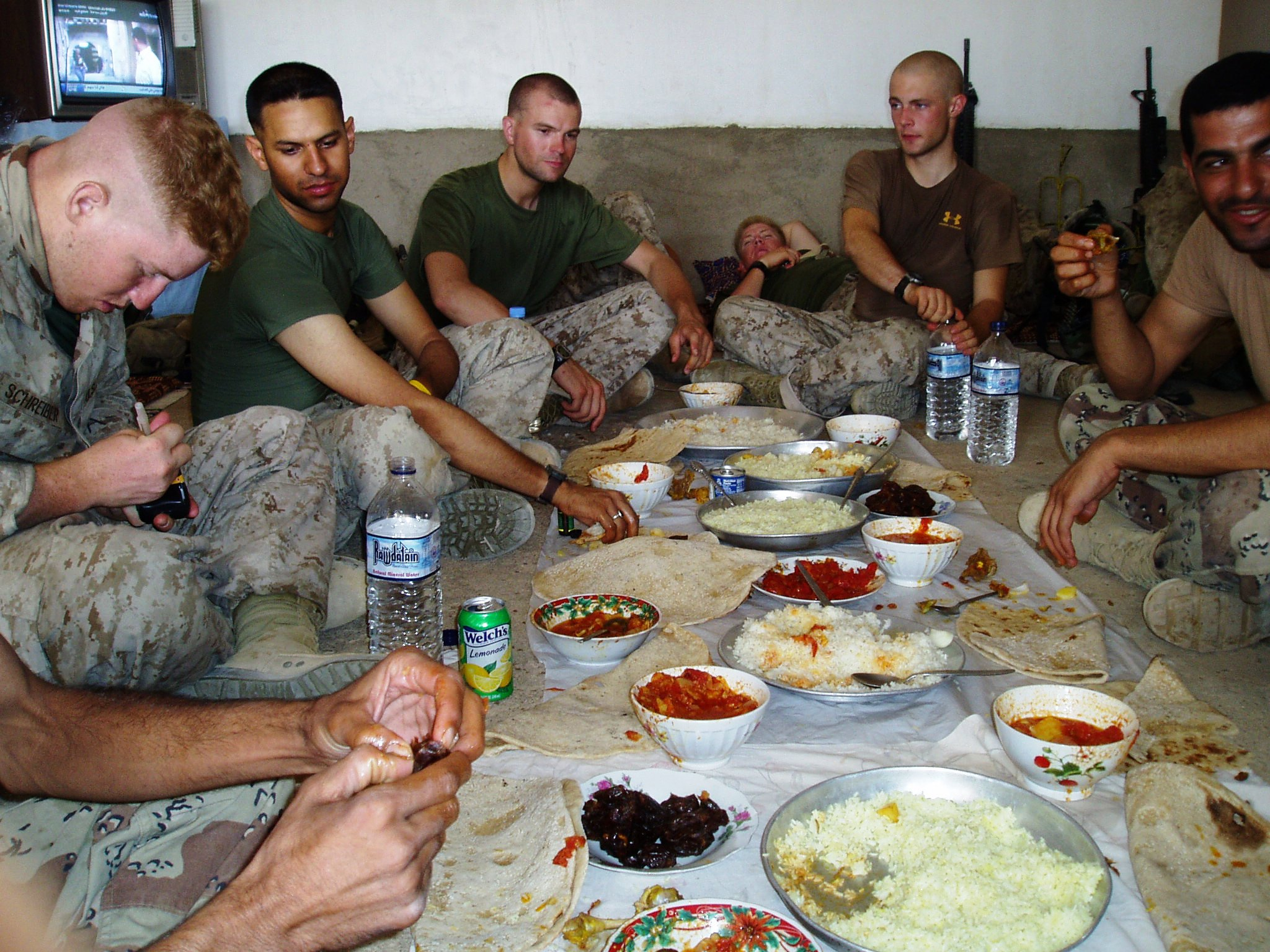 2nd squad eating home cooked meal compliments of the Iraqi Army during Operation Iraqi Freedom. From left: LCpl Schreiber, LCpl Rizvi, Cpl McCauley, LCpl Shay, Iraqi soldierLunch